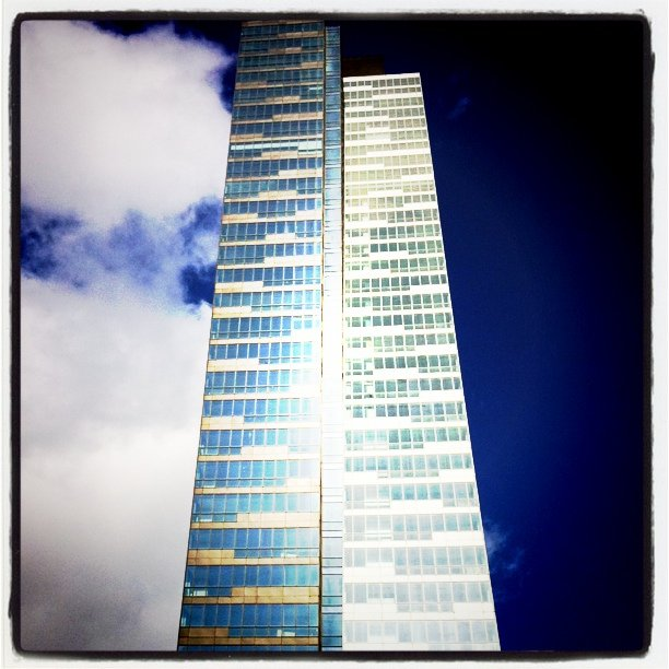 Trump Towers Istanbul